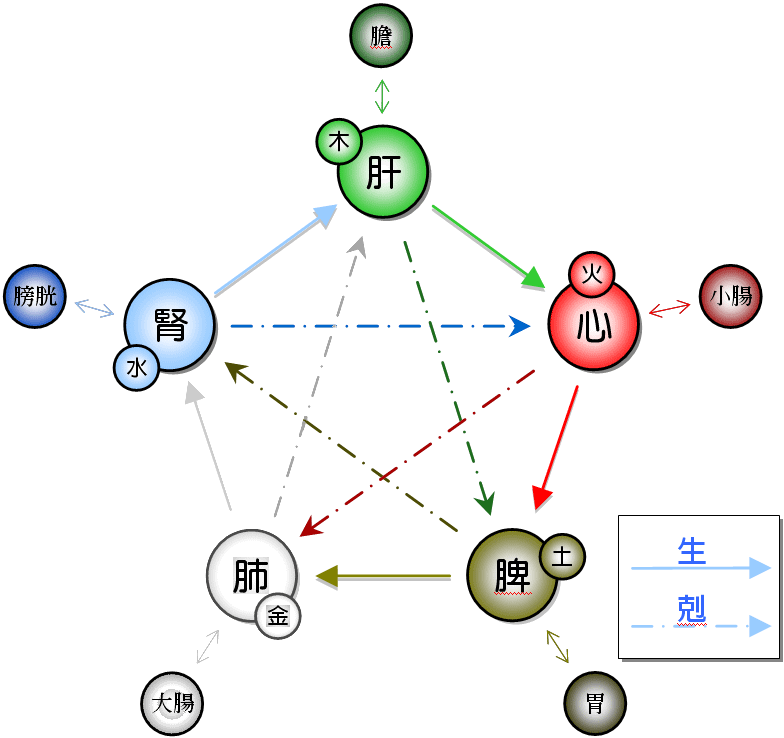 designed by Glio, showing the relationships among the five organs in Chinese medicine, with respect to the 5-element concept.